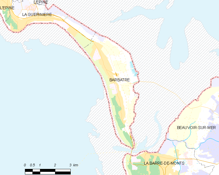 Map of French municipality Barbâtre